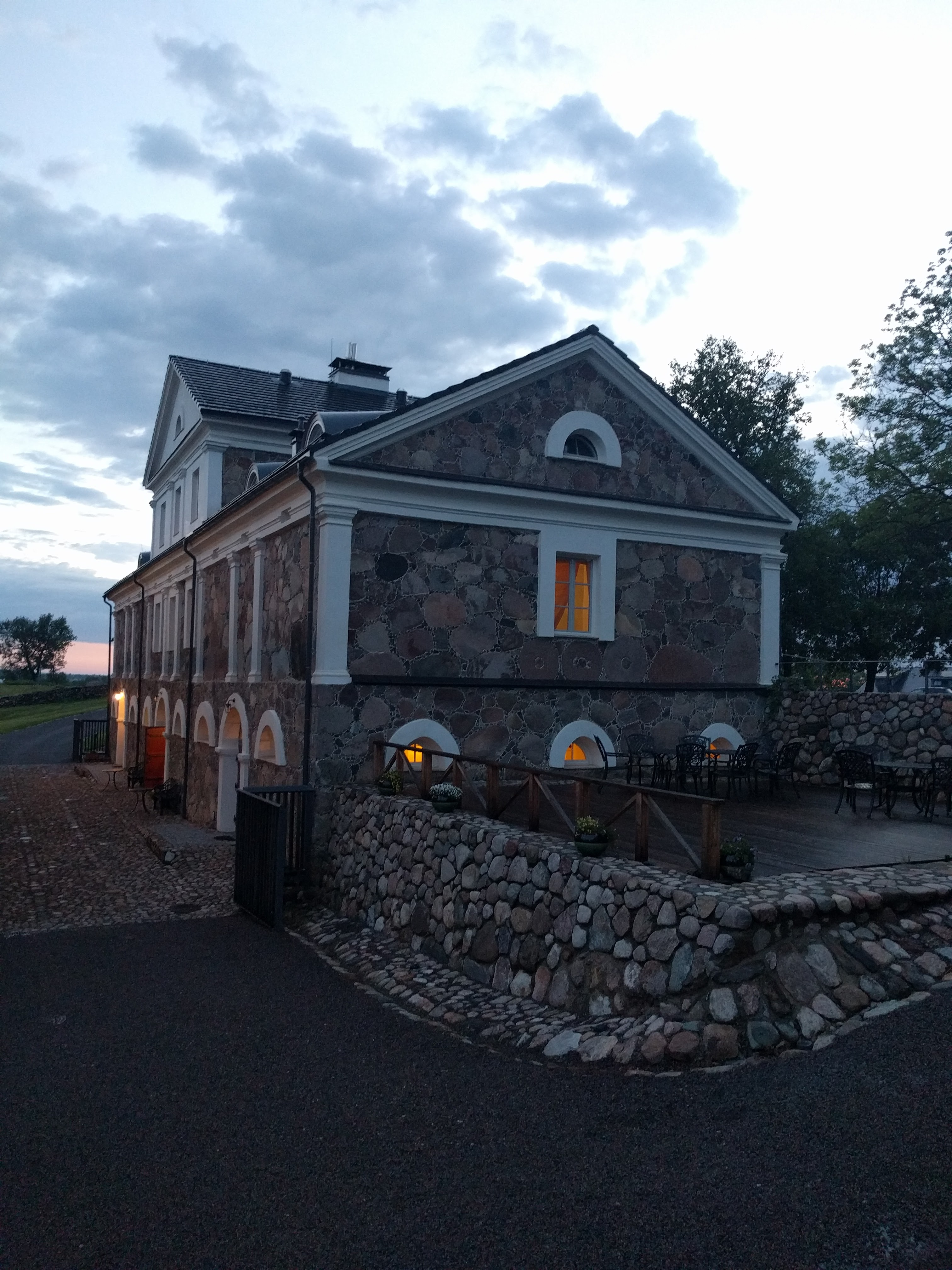 Paliesiaus dvaras iš šono